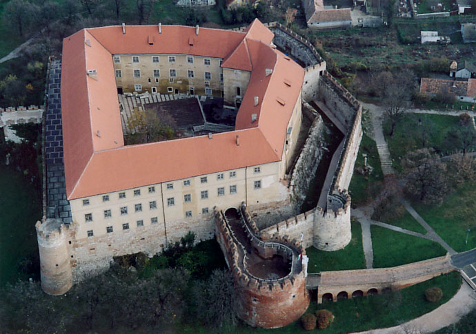 Bastion - Castle - Siklós - Hungary - Europe